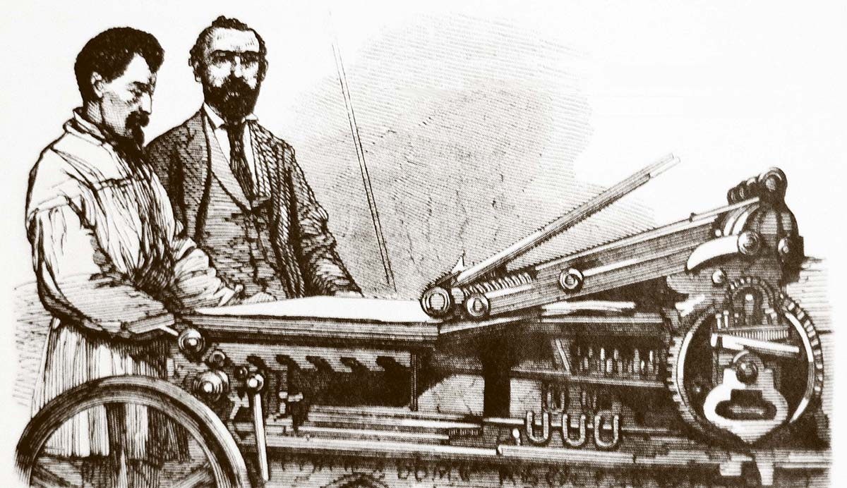 George Lawrence Davis to the right working at his printing press. He was the founder of the School of the Poor, Barcelona